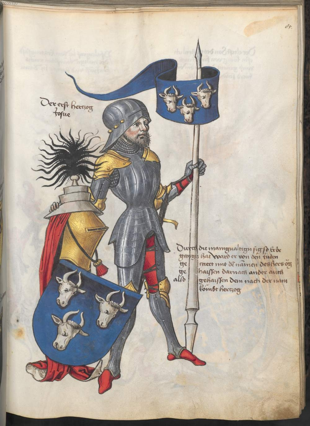 Grünenberg, Konrad: Das Wappenbuch Conrads von Grünenberg, Ritters und Bürgers zu Constanz